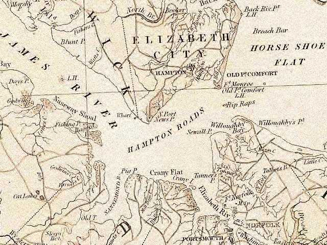 Hampton Roads, Virginia - from official state map published in 1859